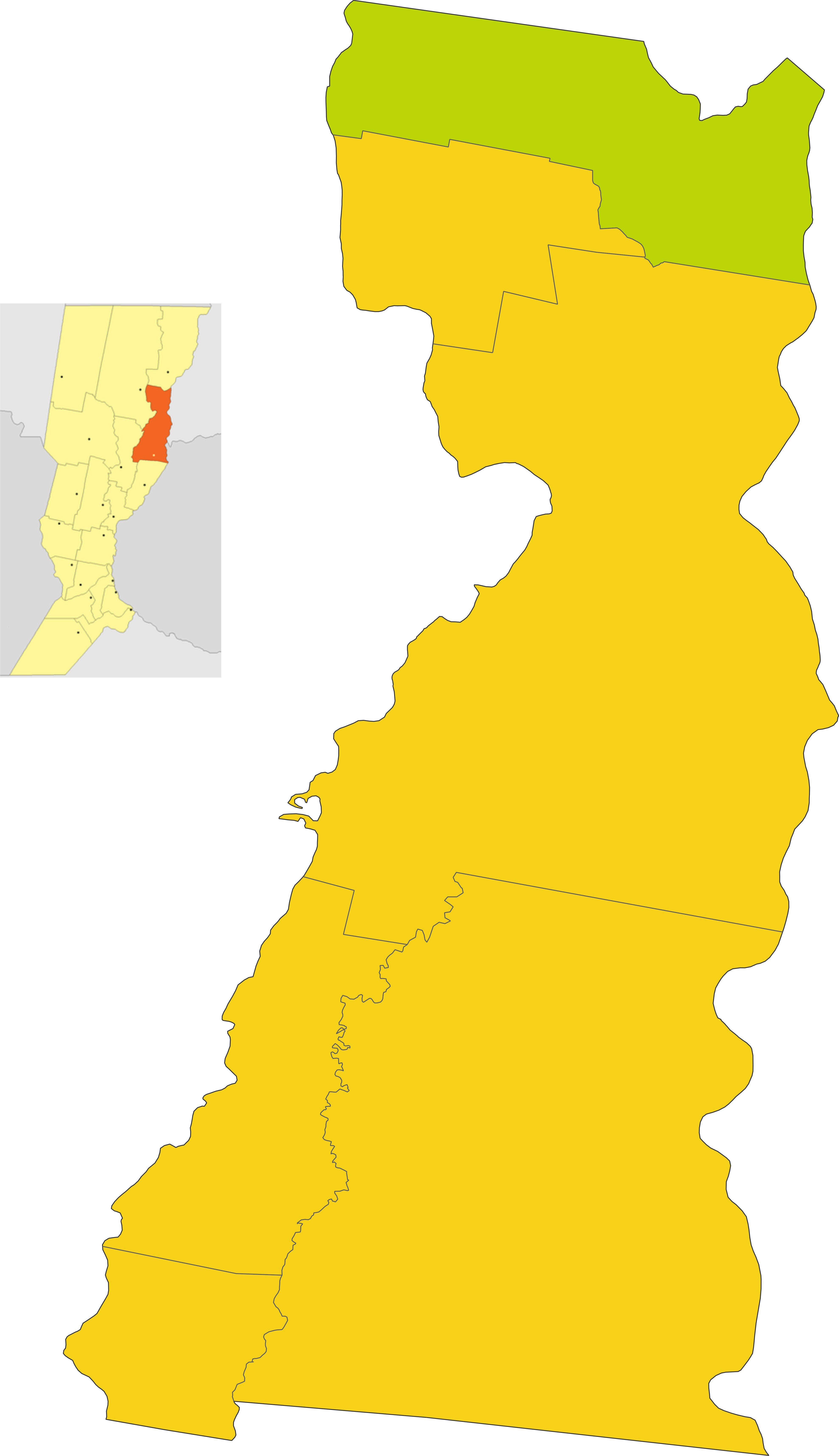 Map of the comuna de Romag in San Javier department, Santa Fe province, Argentina